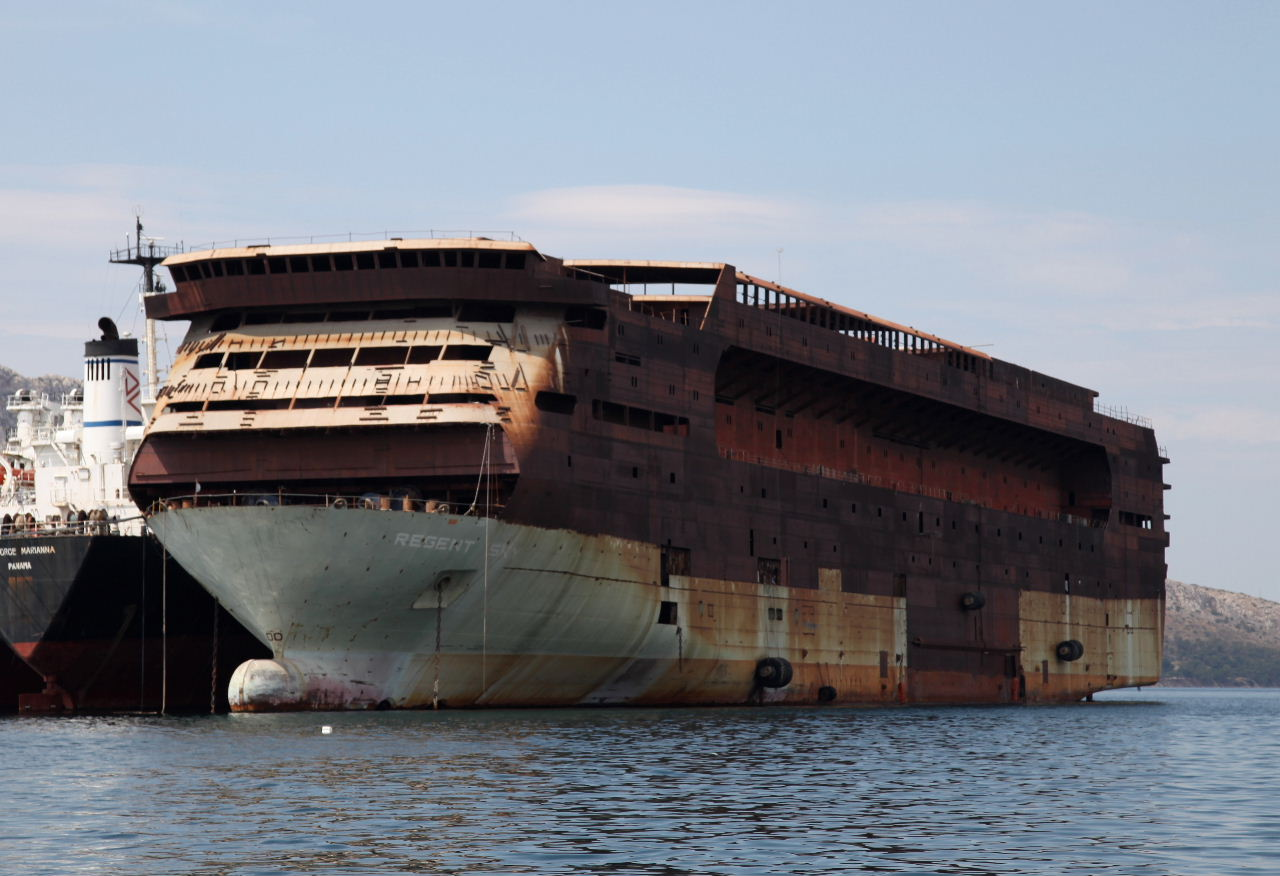 The unfinished cruise ship Zoe in Eleusis on August 12, 2009.